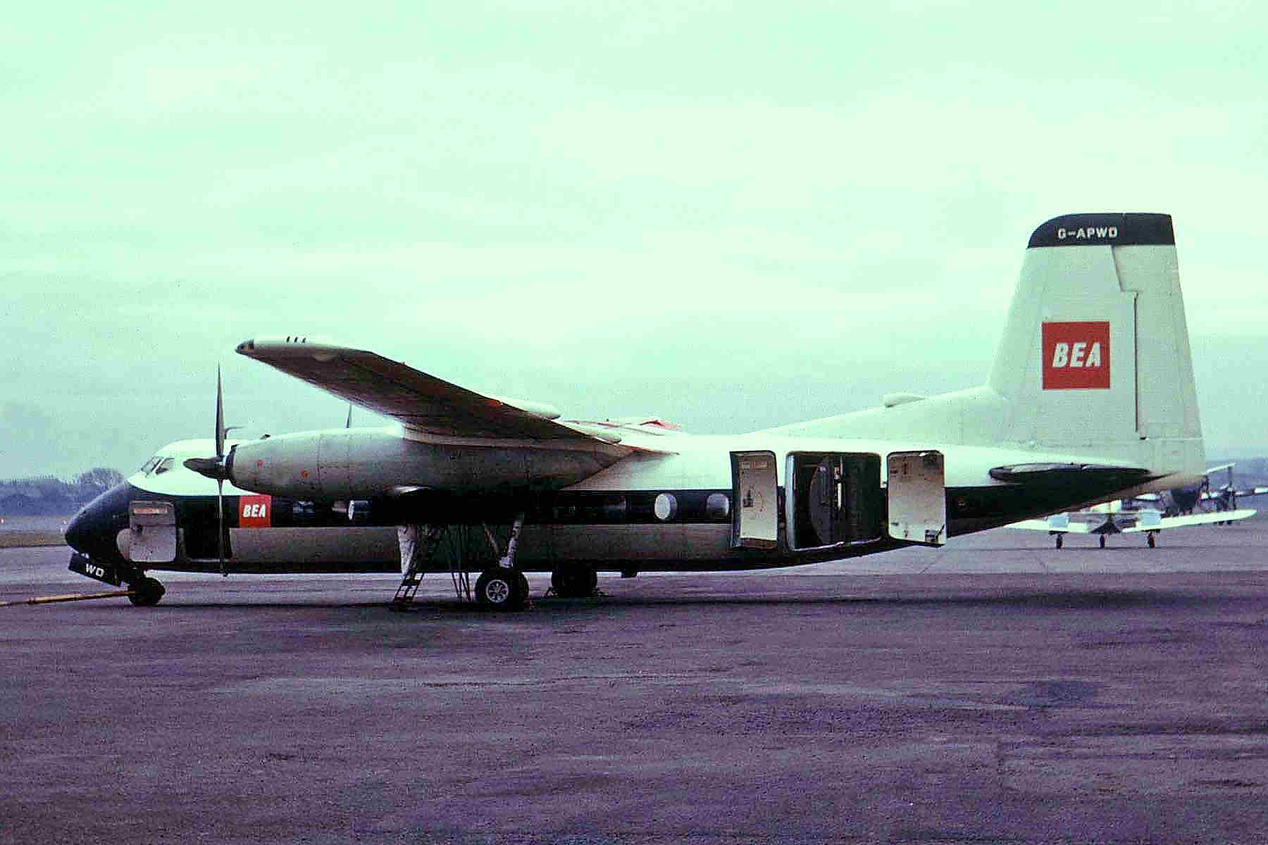 I had to go to Glasgow (GLA) for this photo. The BEA Heralds operated exclusively on the 'Highlands & Islands' services and very seldom came any further south!